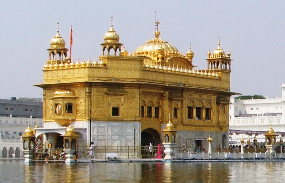 Golden Temple (main building) Complex with Akal Takht Sahib.